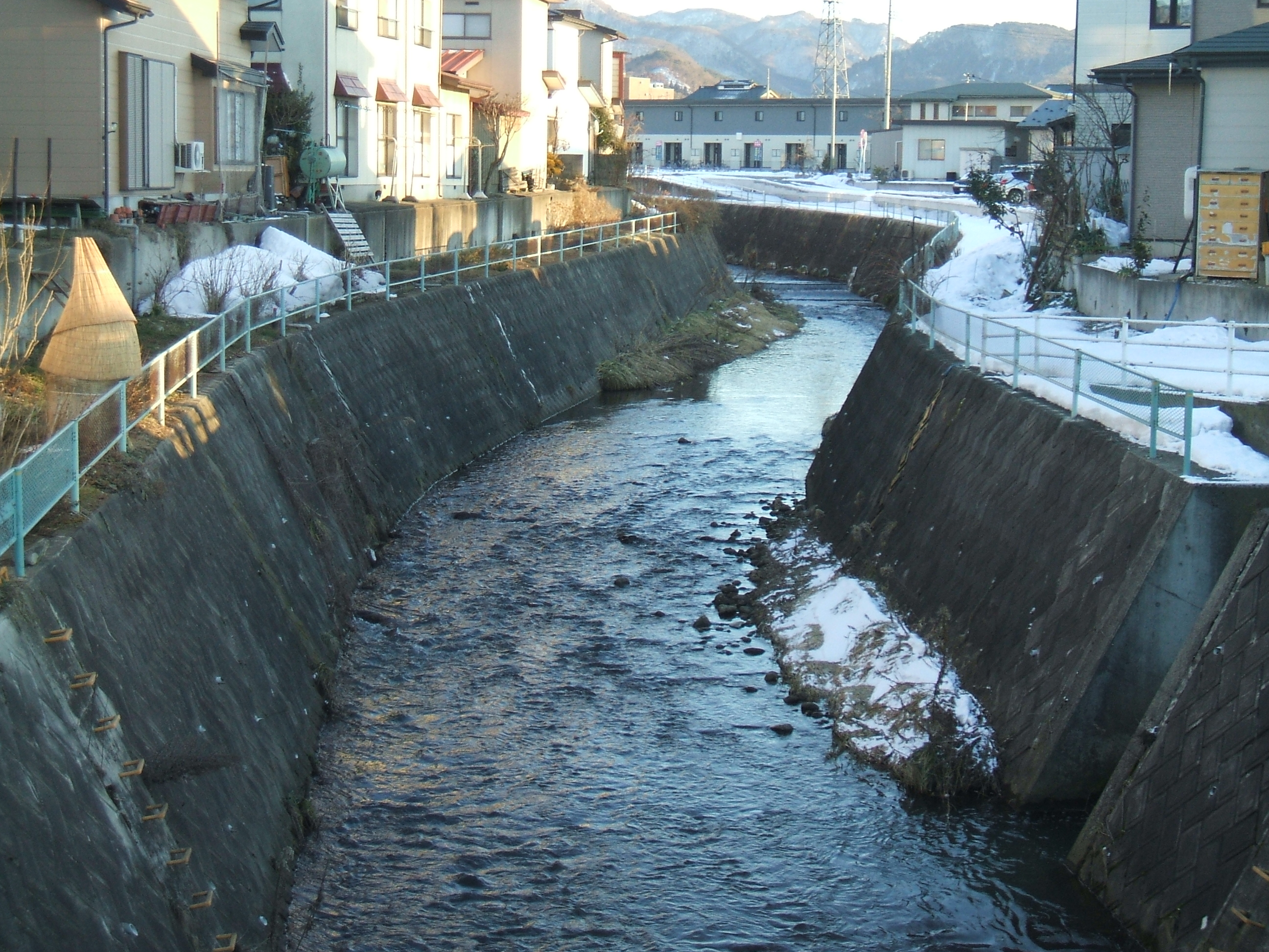 This is a landscape of Fudo-gawa river. It was taken at Aizuwakamatsu, Fukushima.